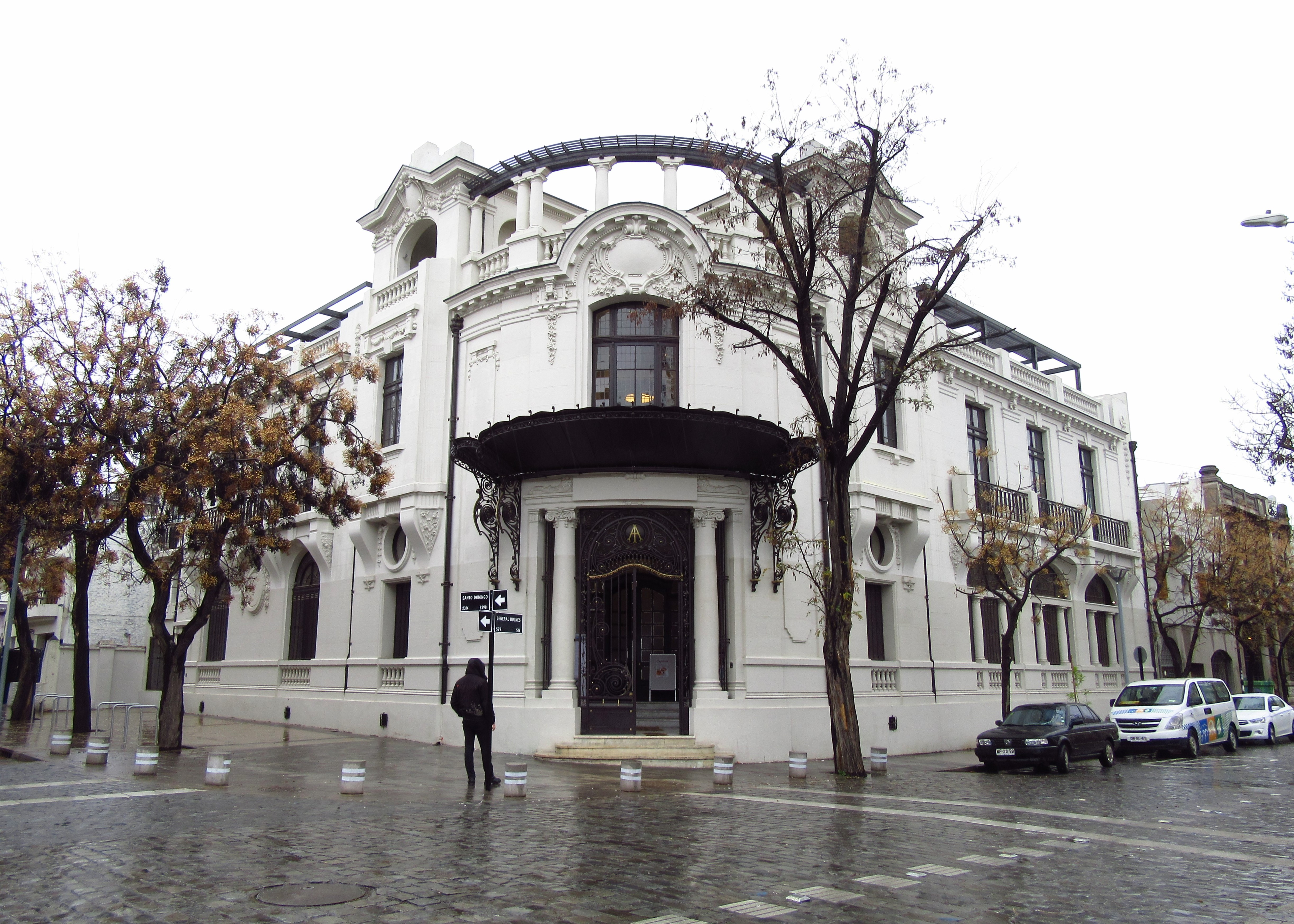 2017 in Santiago de Chile